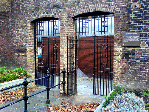 The remaining wall and gate arches of the Marshalsea debtors prison, Southwark, London SE1.